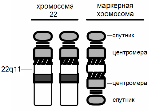 Partial karyotype of cat eye syndrome